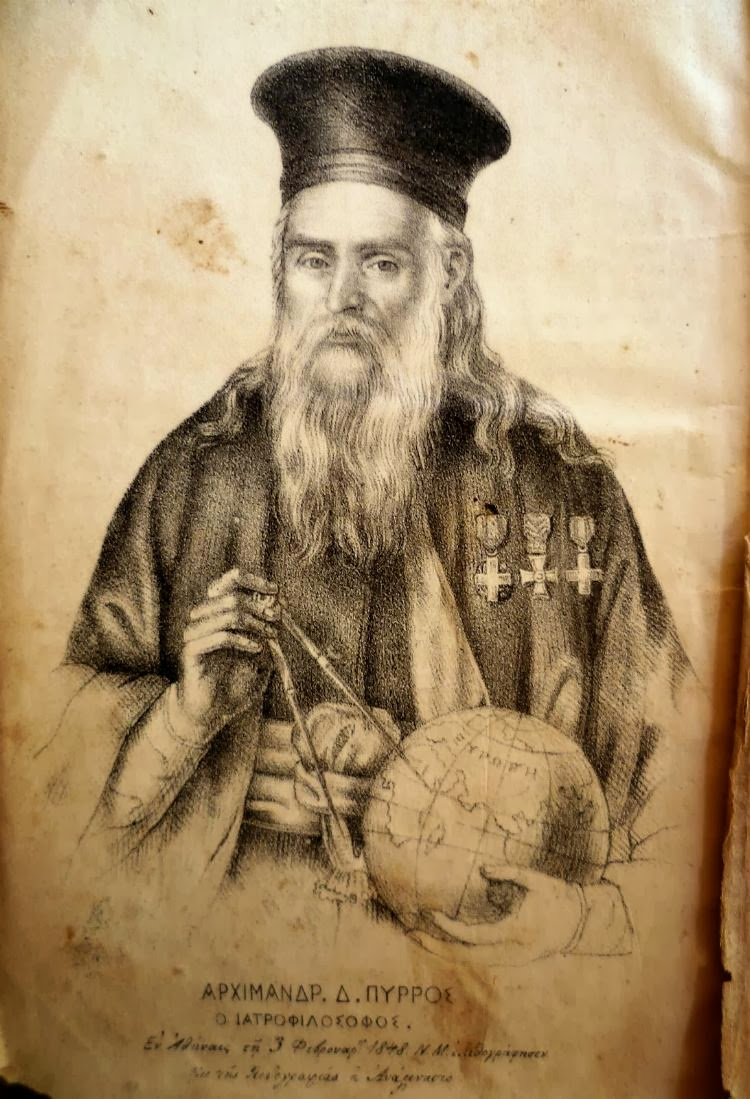 Greek priest and scientist Dionysios Pyrros (1774-1853)